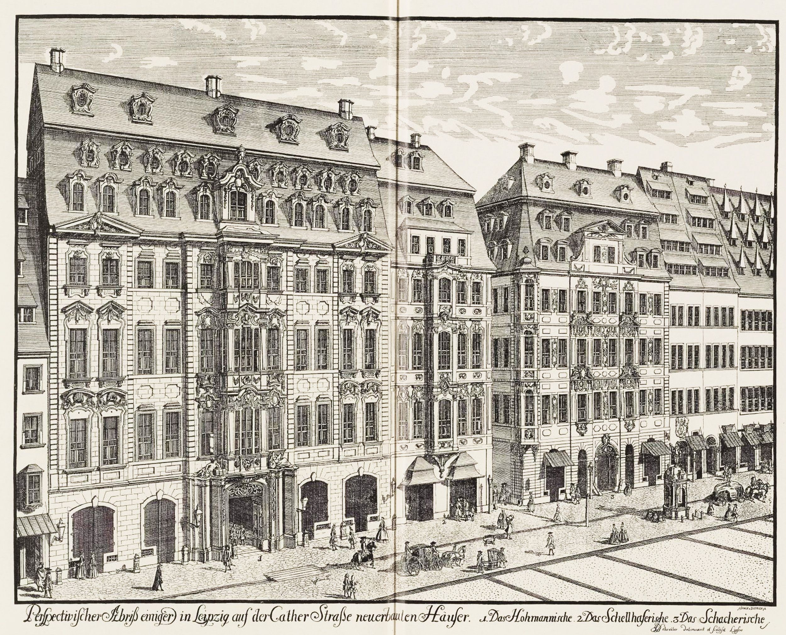 Engraving by Johann George Schreiber of Katherinenstraße, Leipzig, c 1720, with figure 2 of caption noted at Café Zimmermann (Das Schellheferische)